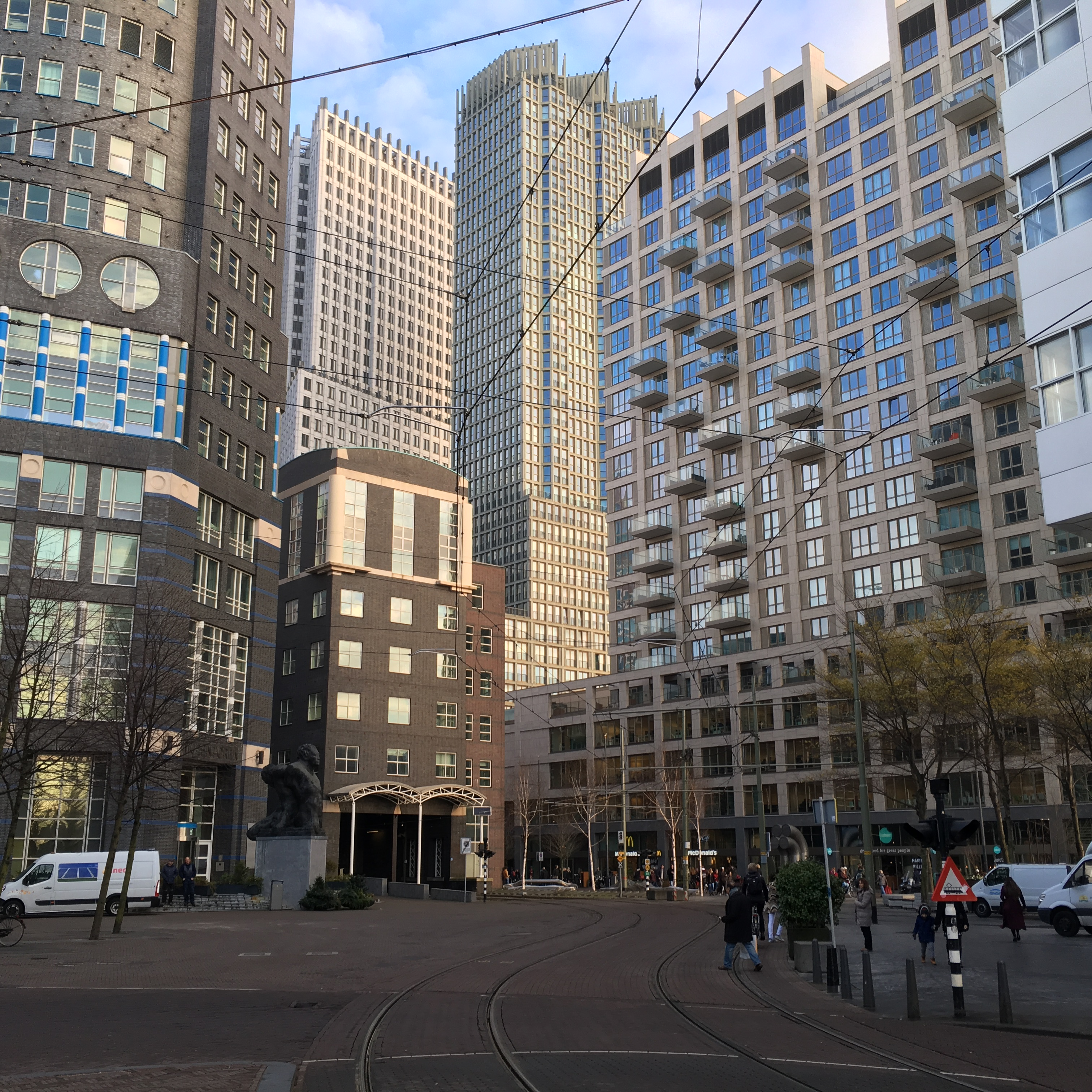 Wijnhaven, The Hague